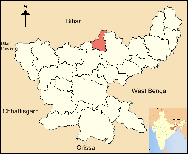 A locator map of Kodarma district, Jharkhand state, India